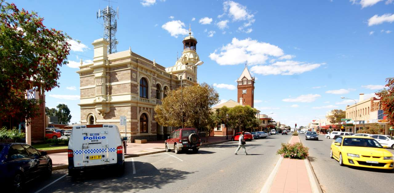 The Broken Hill Town Hall and Post Office.